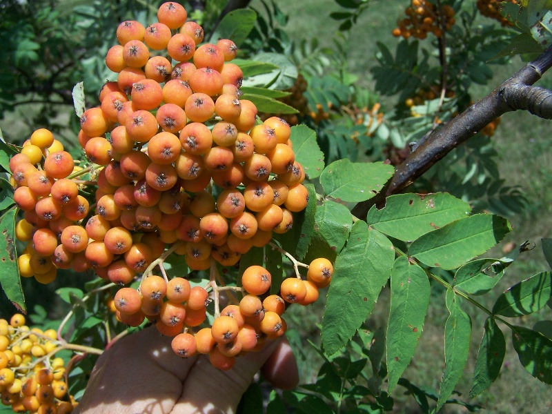 American Rowan or Mountain-ash, Sorbus americana fruits and foliage. Morton Arboretum acc. 55-89-3